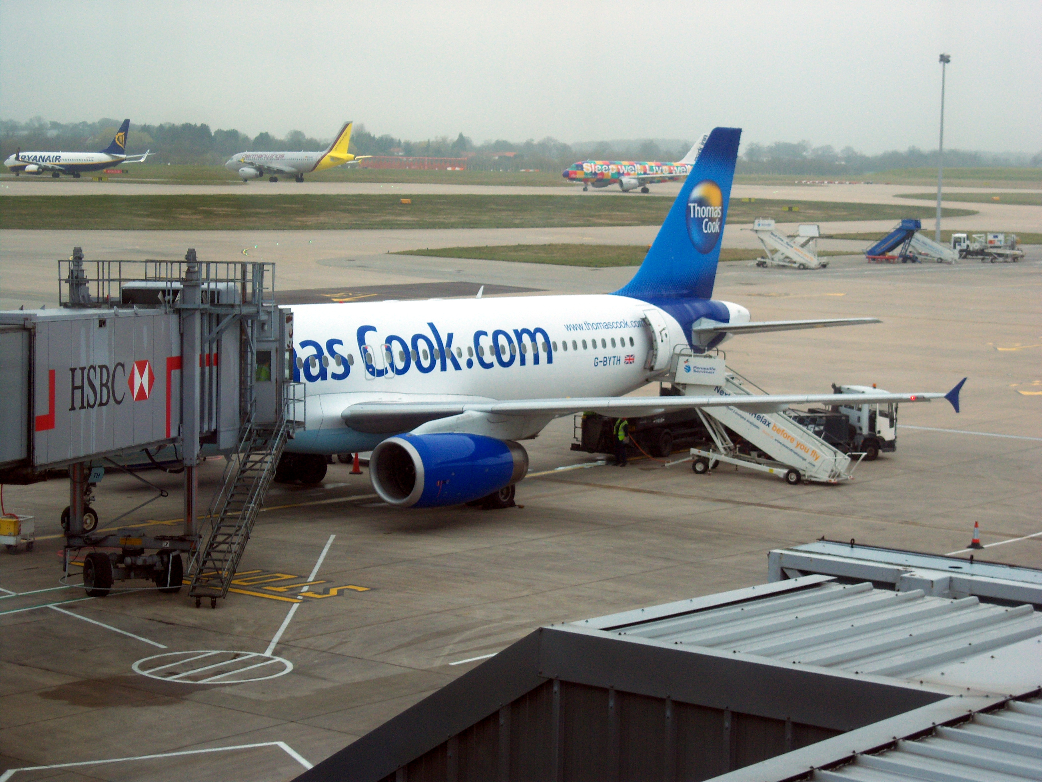 A Thomas Cook Airlines Airbus A320-200 at London Stansted Airport bound for Dalaman.